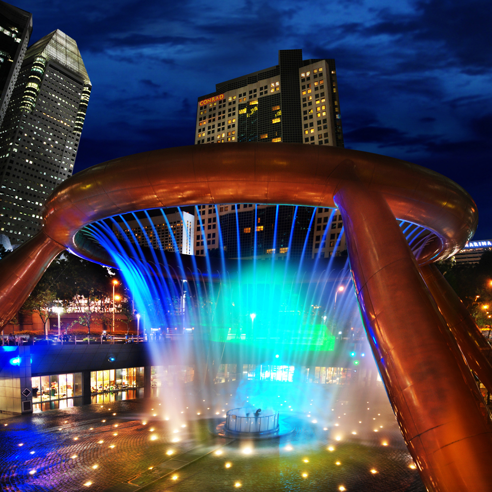 May your wish come true when you visit the Fountain of Wealth, Suntec City, Singapore